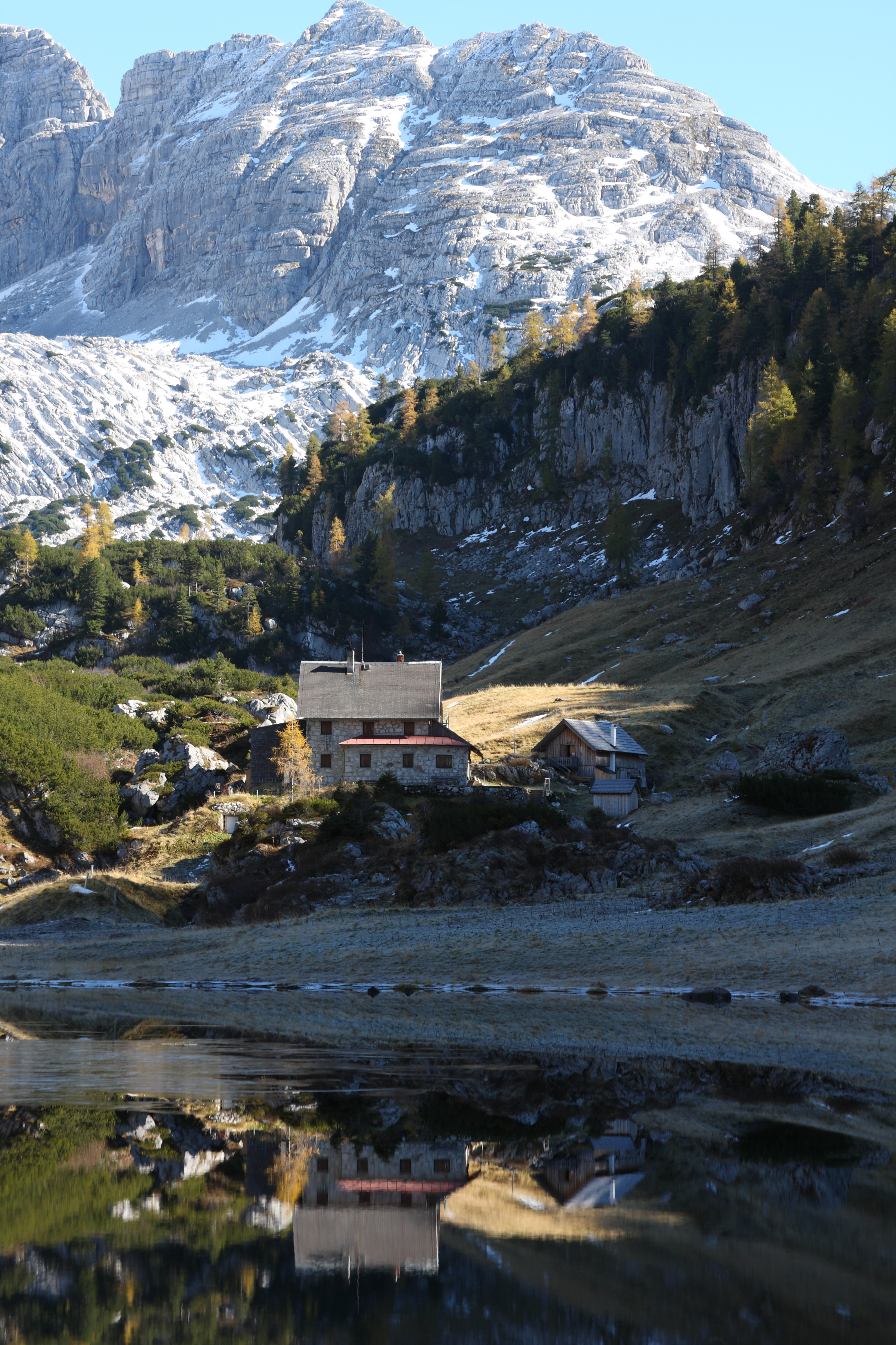 Pühringer Hütte, Salzkammergut, Styria, Austria